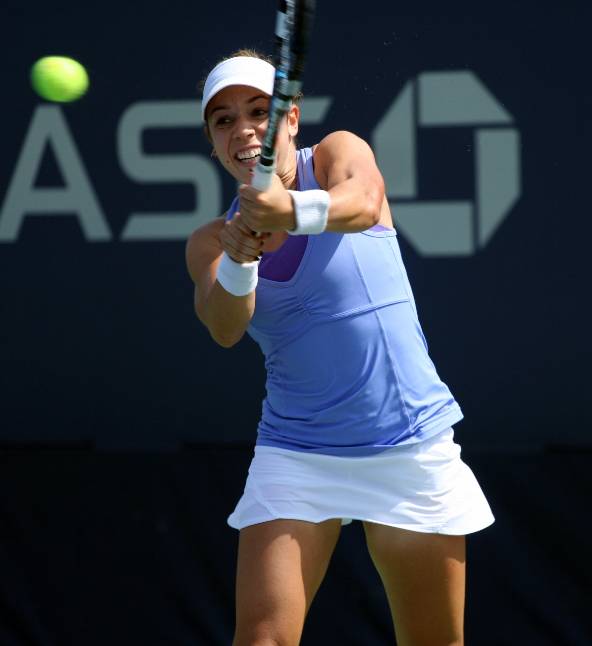 Friday, August 30, 2013